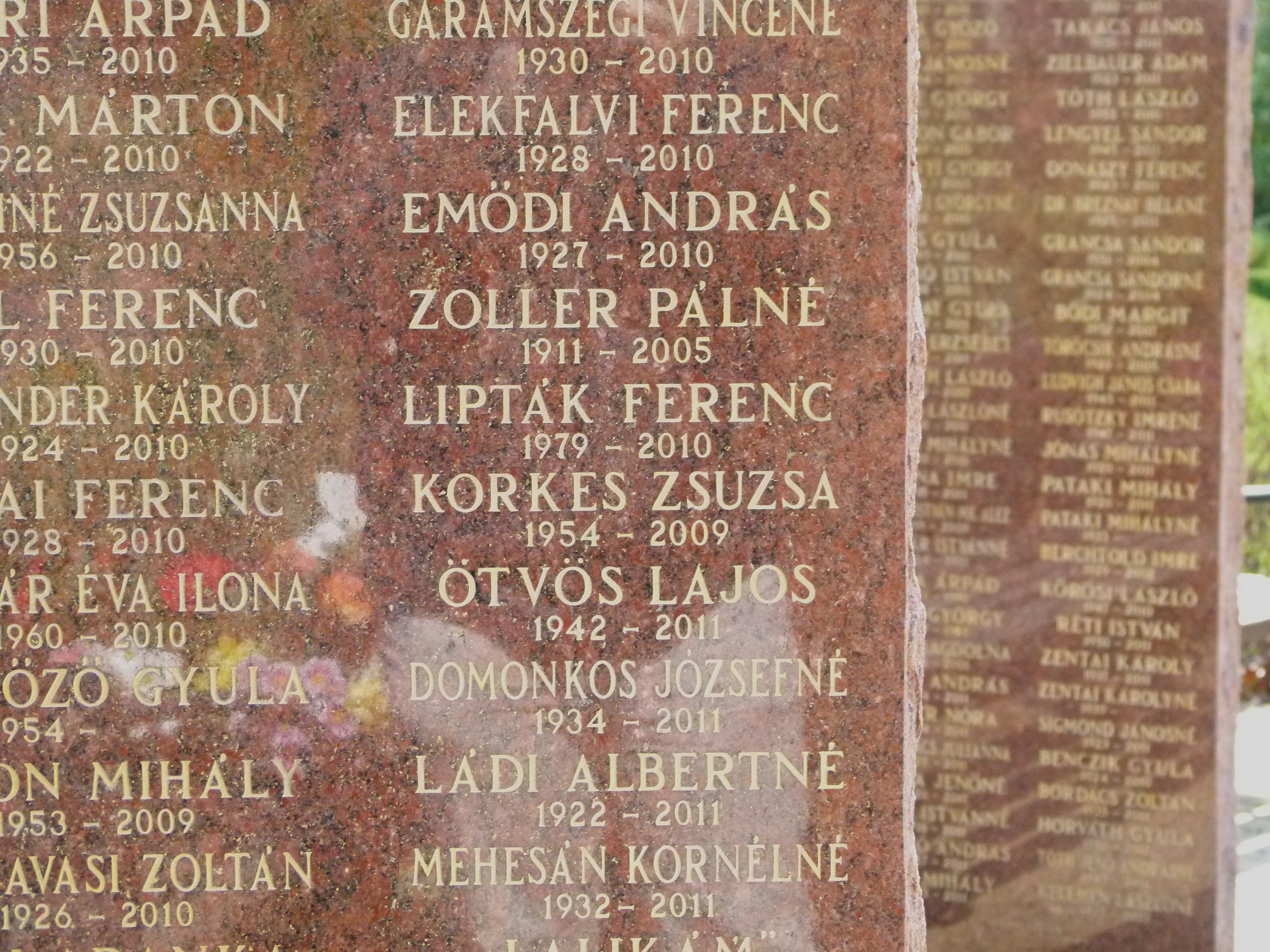 Memorial of Zsuzsanna Korkes, museologist, ethnographer, in National Graveyard (Kerepesi Cemetery), Budapest, Hungary.